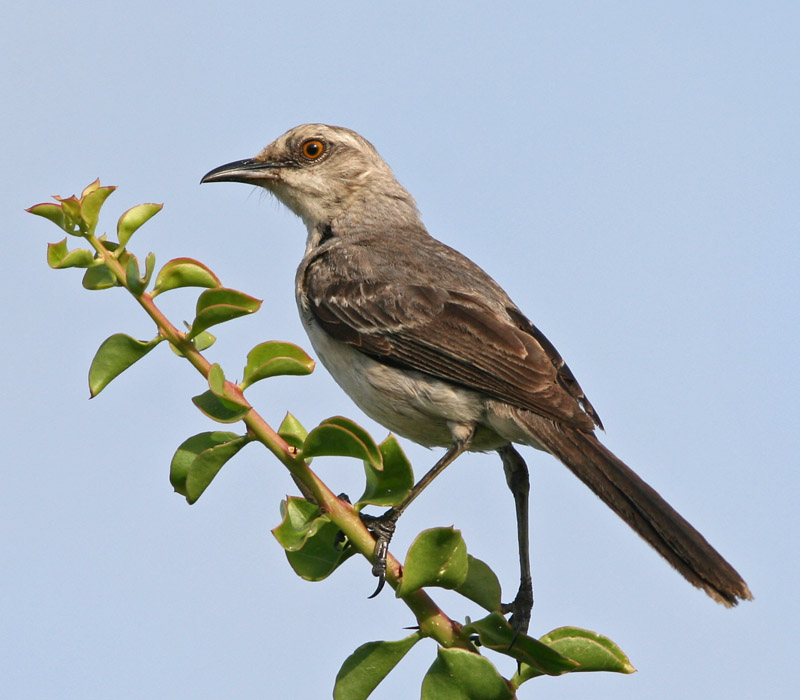 Tropical Mockingbird in Isla Margarita, Venezuela